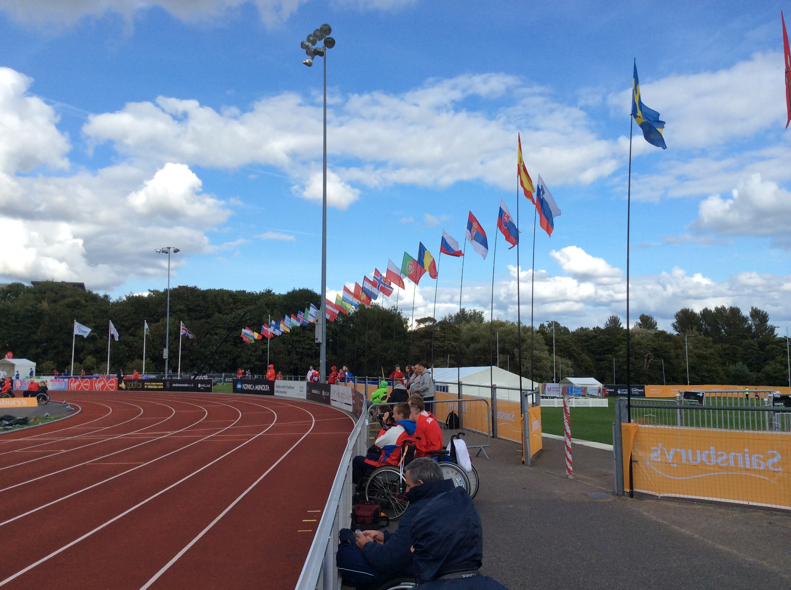 The 4th IPC Athletics European Championships. Held at Swansea University Stadium in Swansea, Wales. The flags of the competing nations flying over the tracks' back straight.